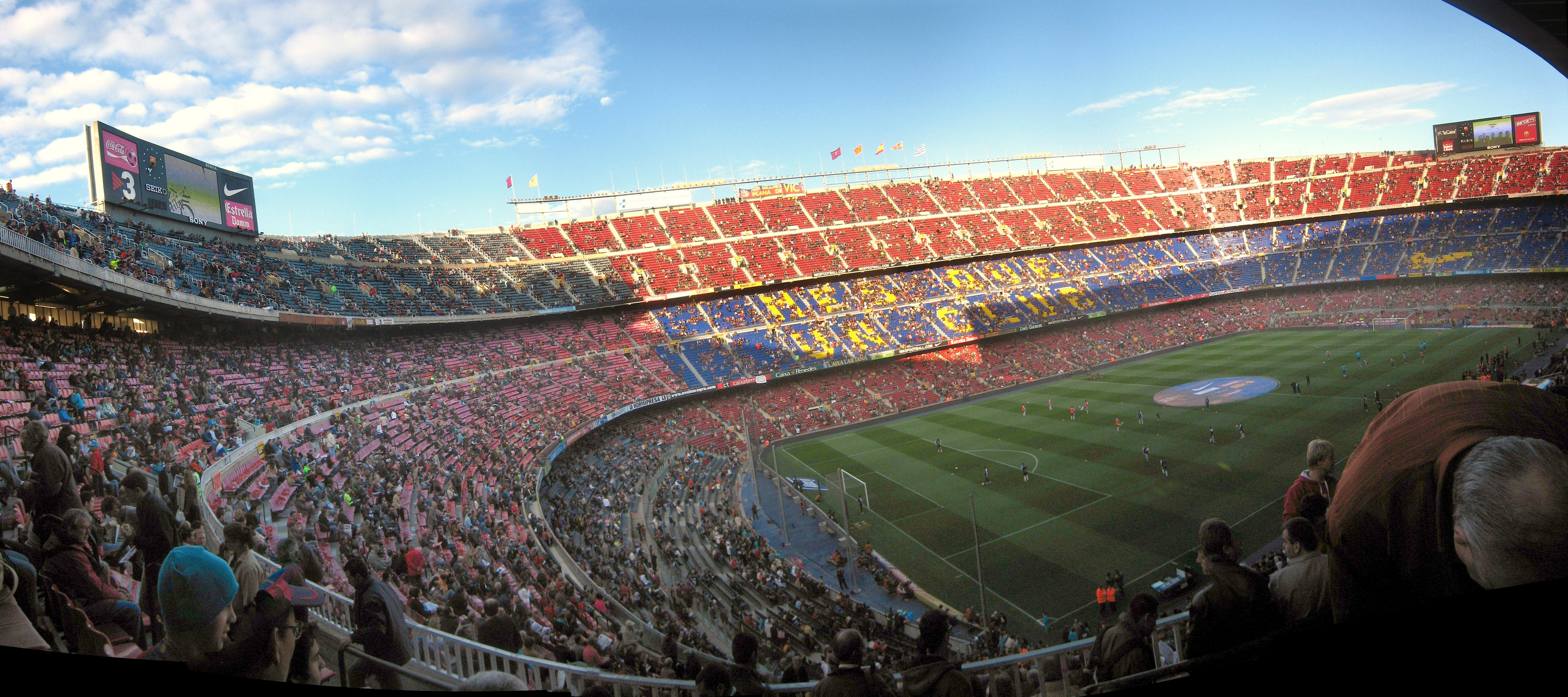 Home of FC Barcelona